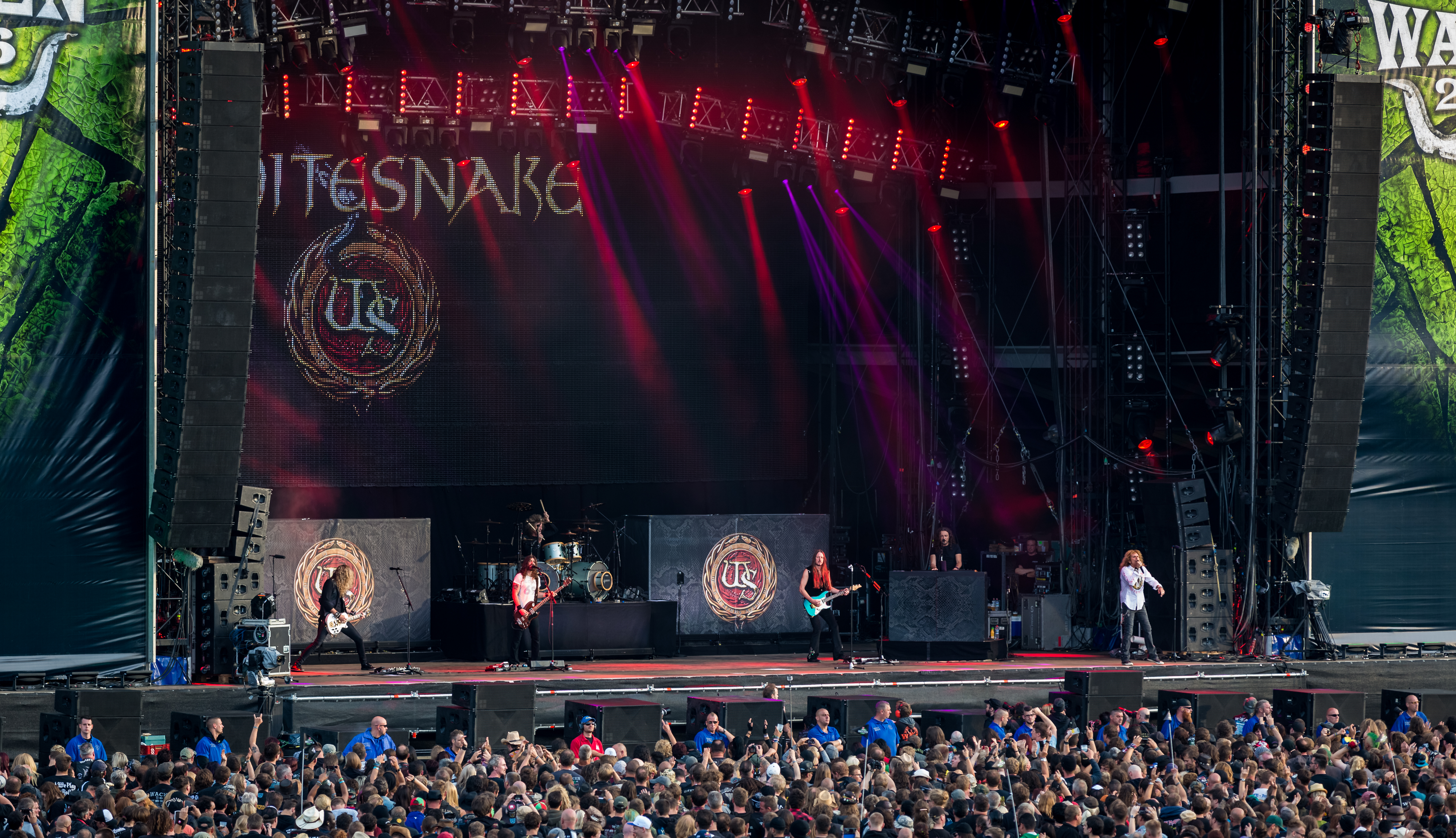 Whitesnake - Wacken Open Air 2016